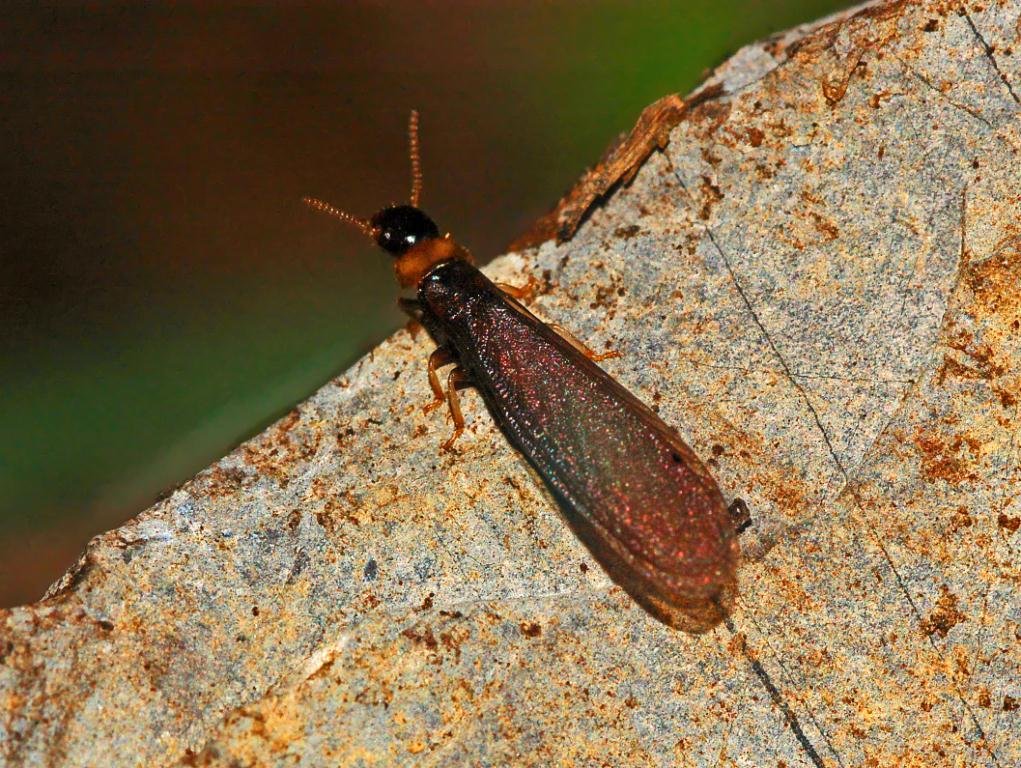 Kalotermes flavicollis - winged adult